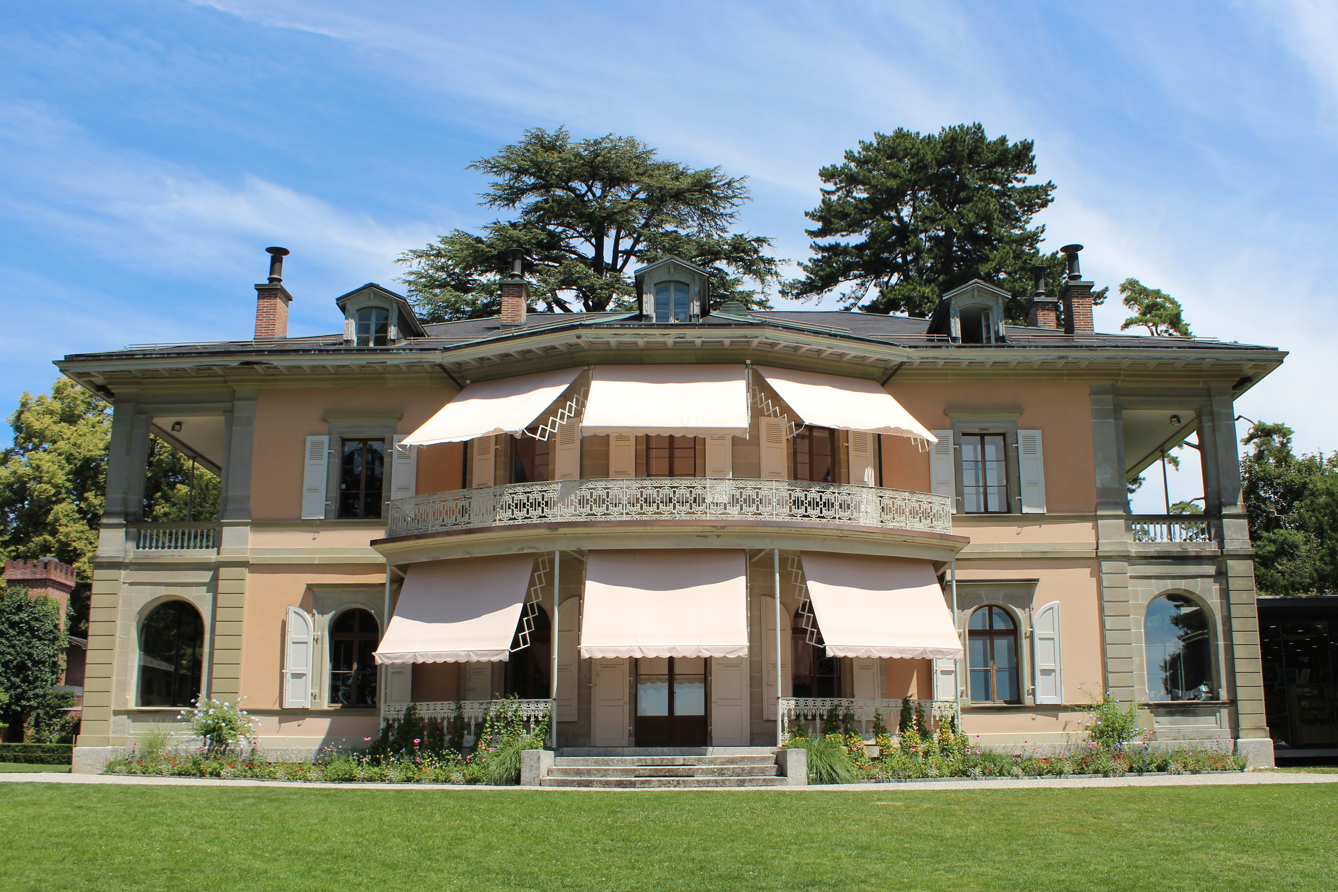 Lausanne, Fondation de l’Hermitage: South facade of the Villa "l'Hermitage" in July 2018